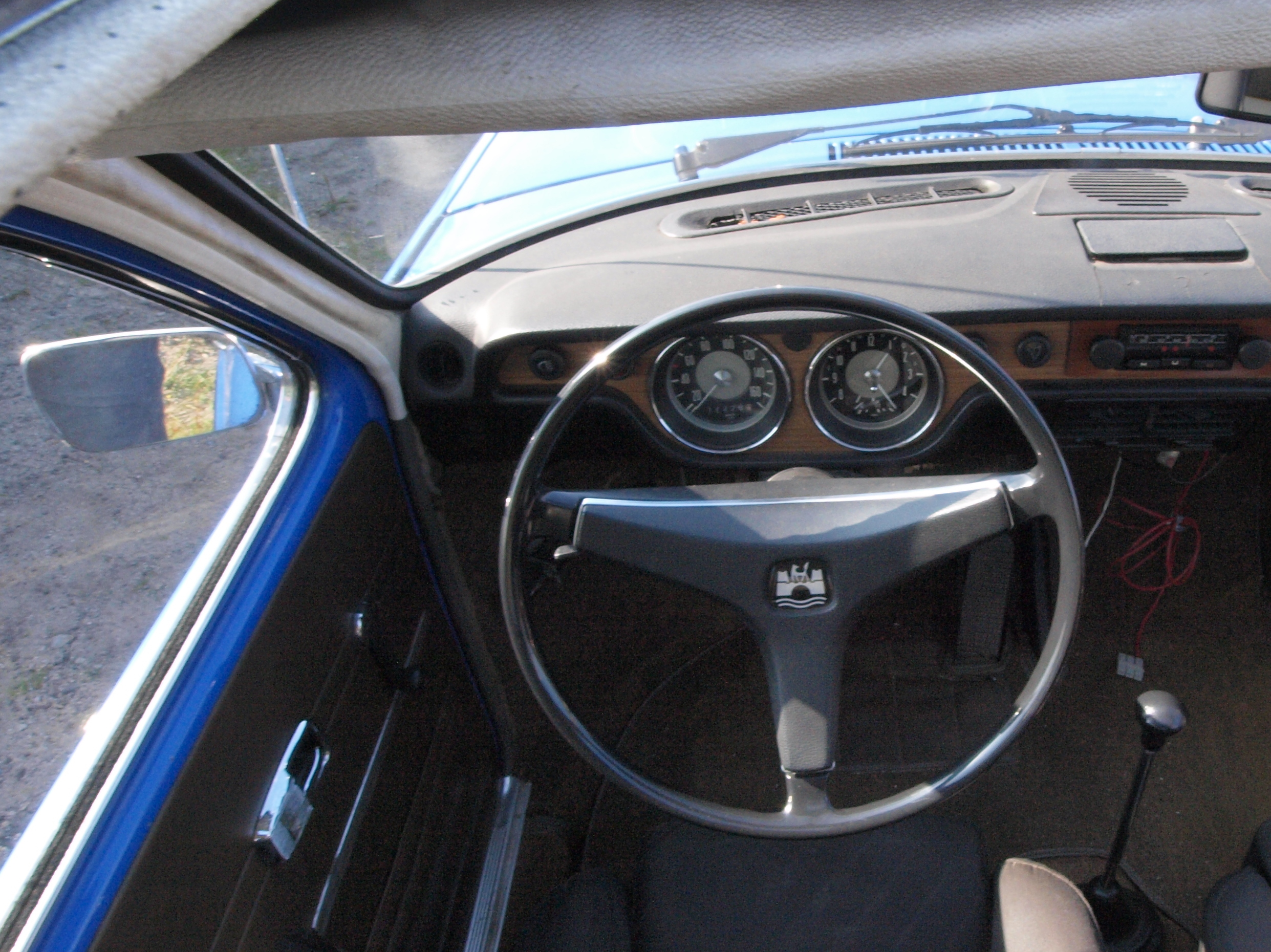 Photographed at the Nationaal Oldtimer Festival Zandvoort 2009, The Netherlands. OLYMPUS DIGITAL CAMERA